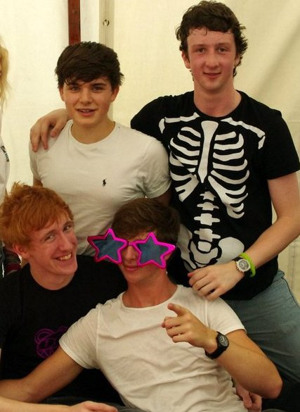 Fuze after winning YFest 2011